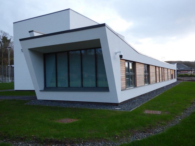 The A78 Main Road side of the community centre.